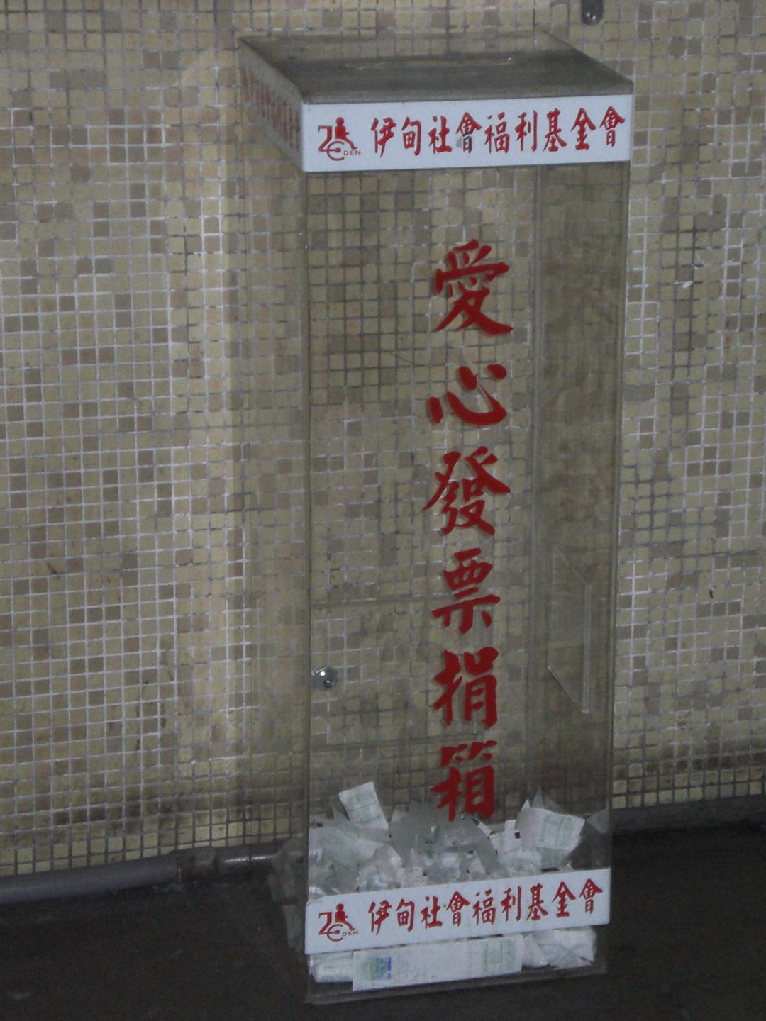 A Uniform Invoice box of Eden Social Welfare Foundation in TRA Keelung Station.